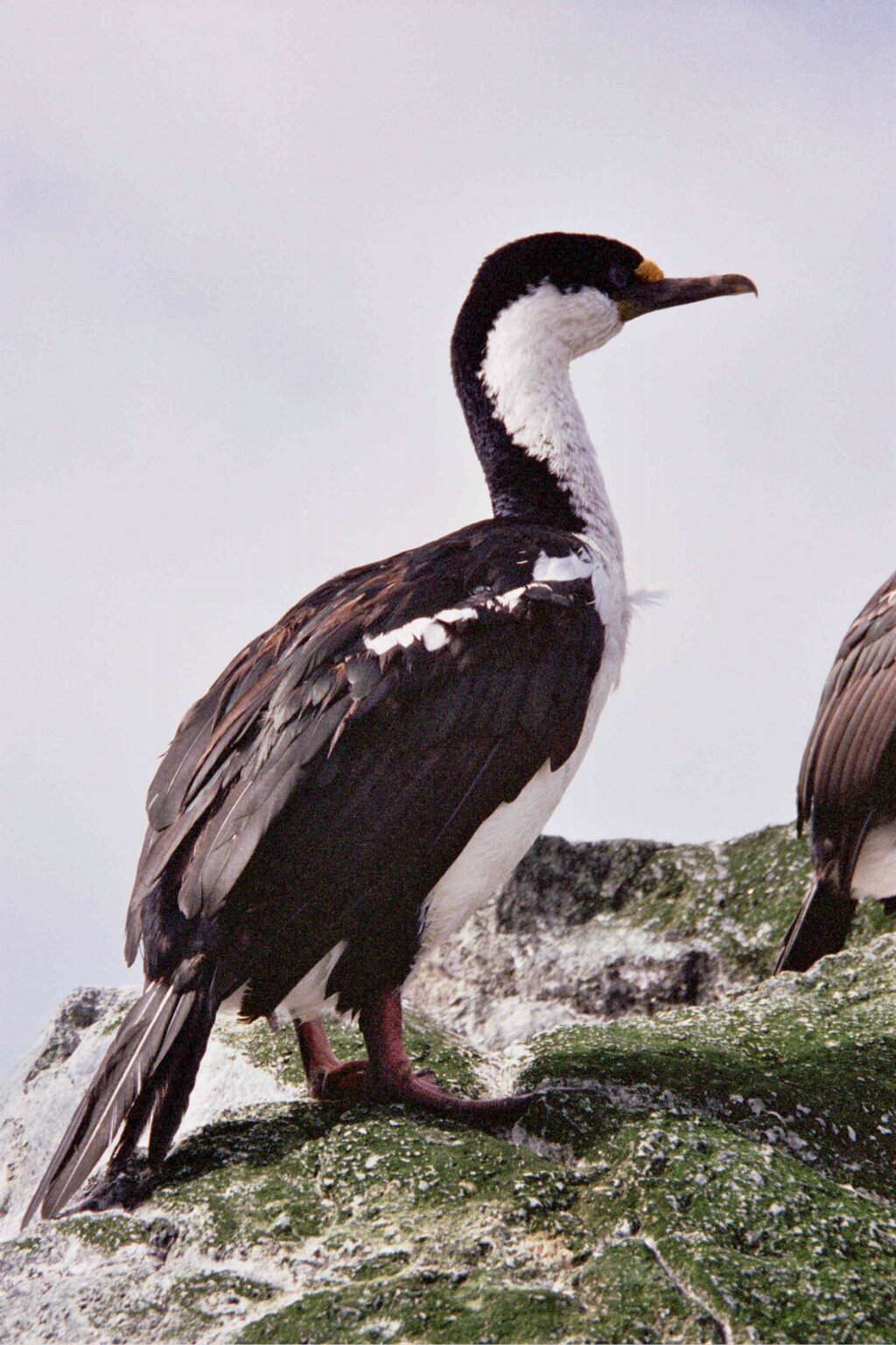 Close-up of a Macquarie Shag Leucocarbo purpurascens, on Macquarie Island